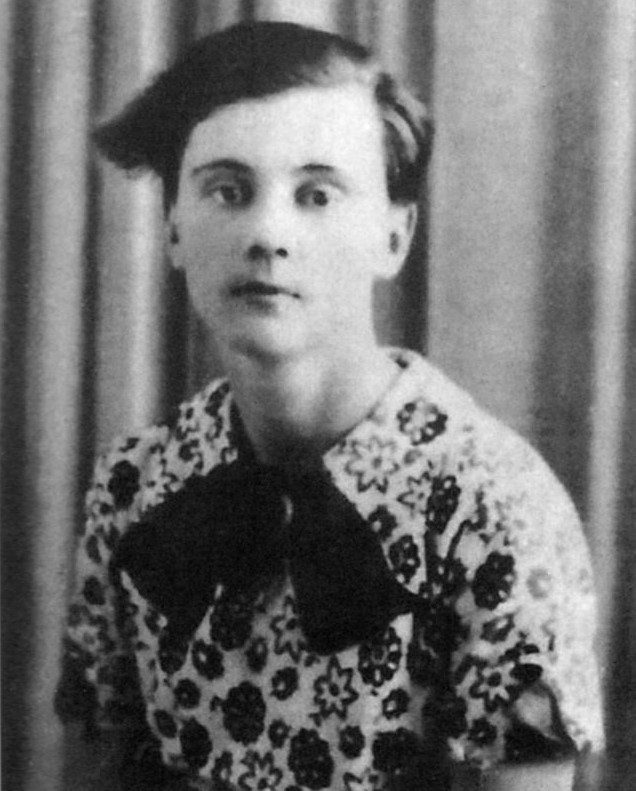 Susan Sweney (1915-83) in 1936